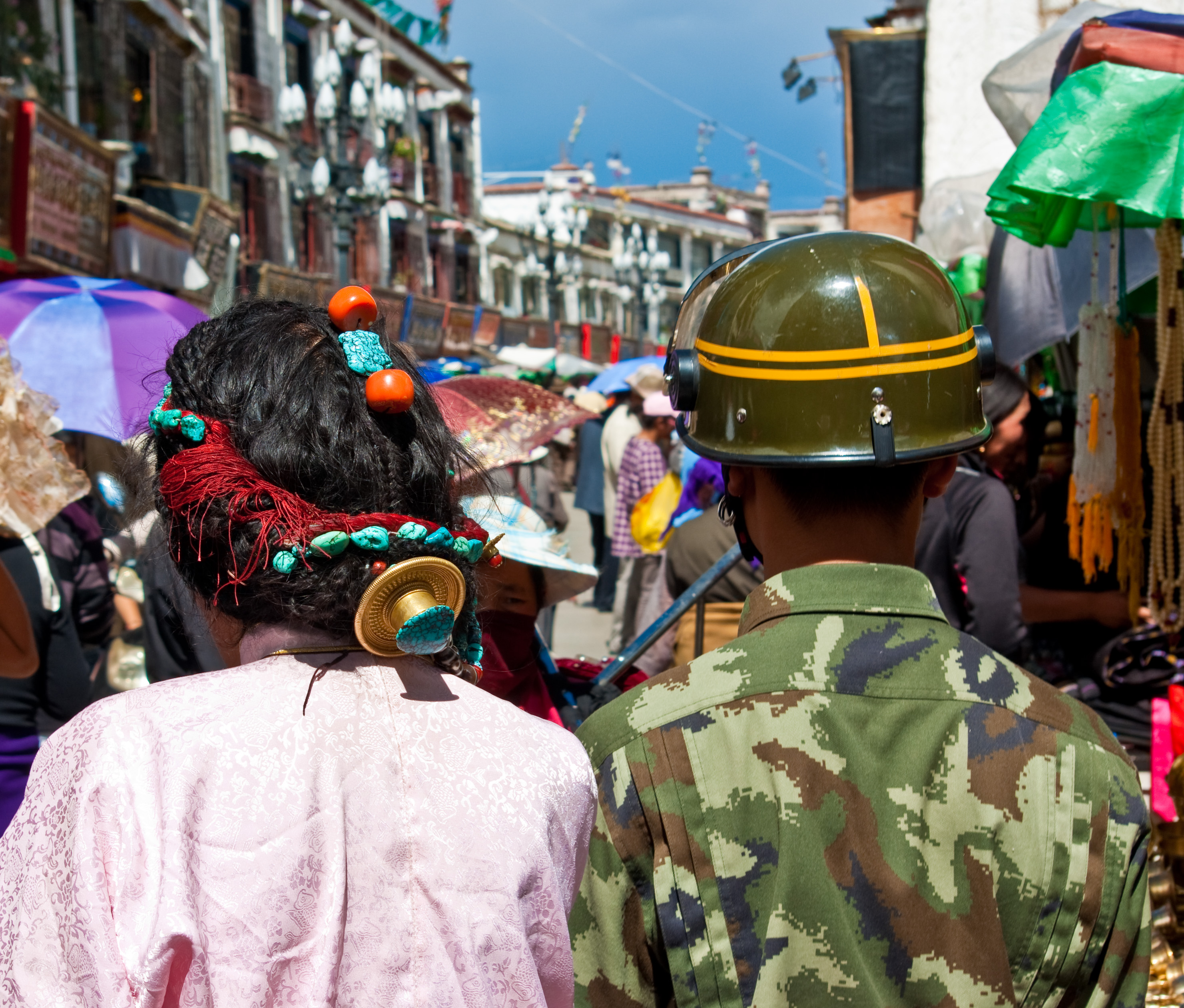 Military of Tibet (Lhasa)